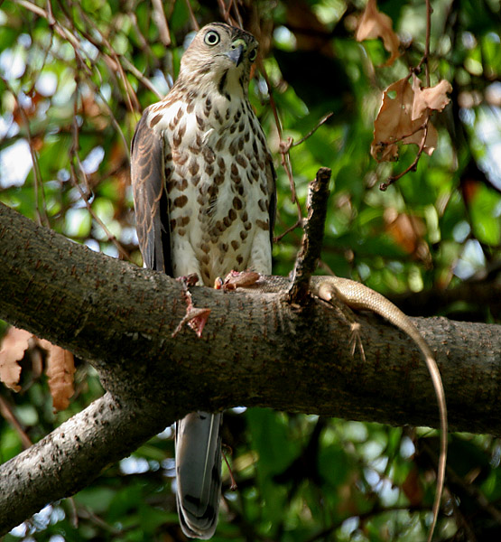 Shikra Accipiter badius in Hyderabad, India.